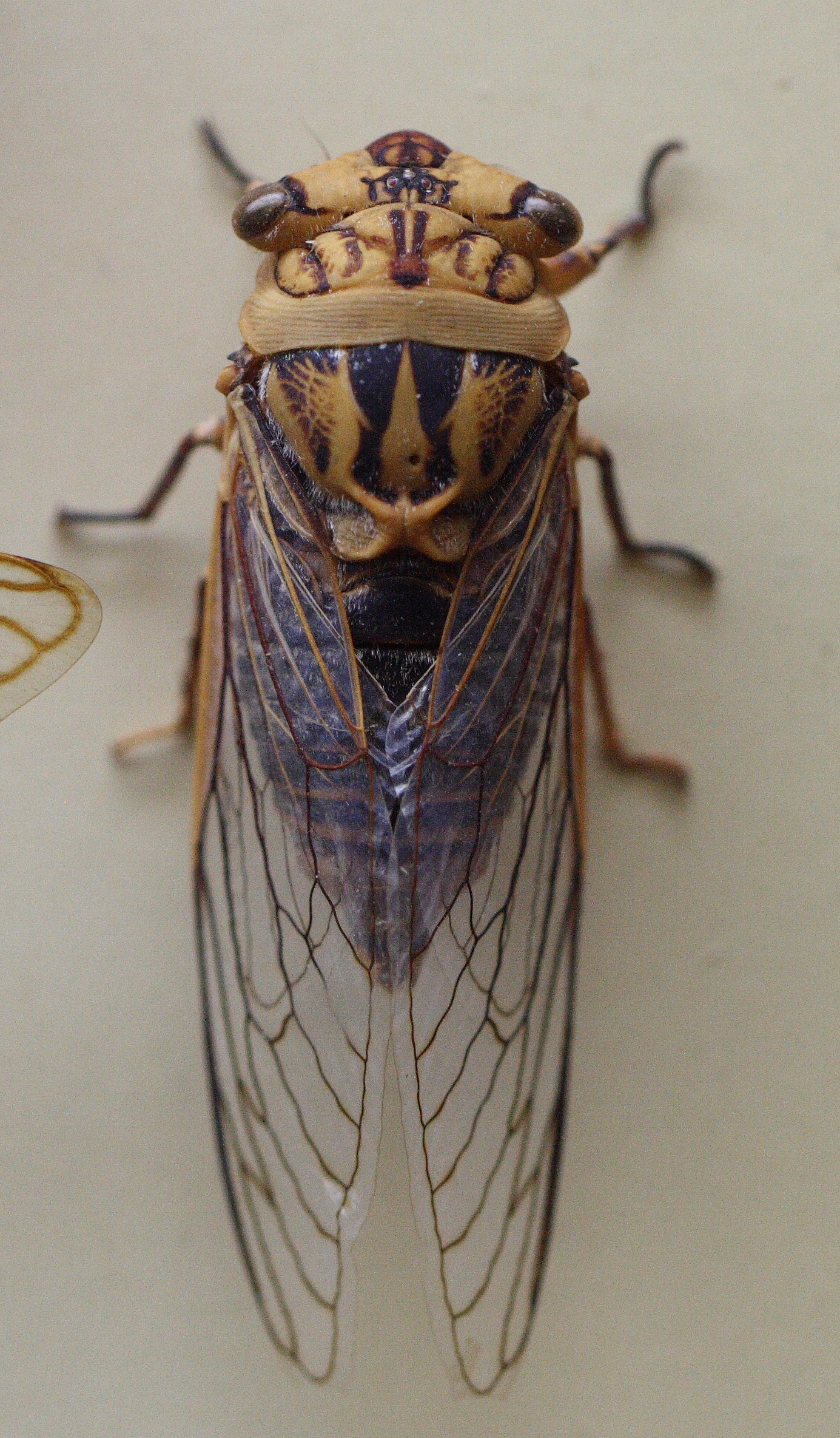 Specimen in the Australian Museum cicada display.